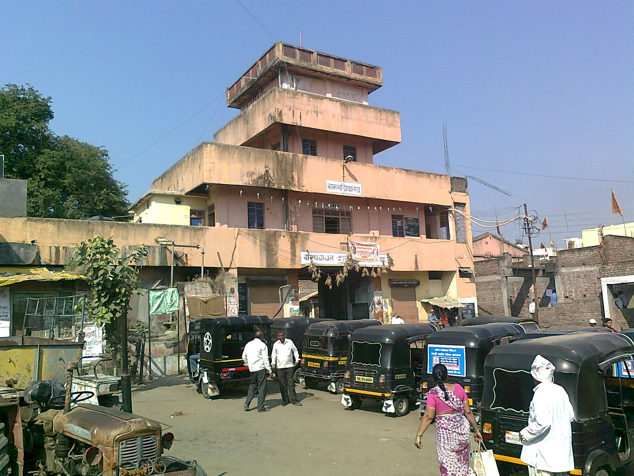 Gram Panchyat and rikshaw stand at Khiroda in Jalgaon district, India.